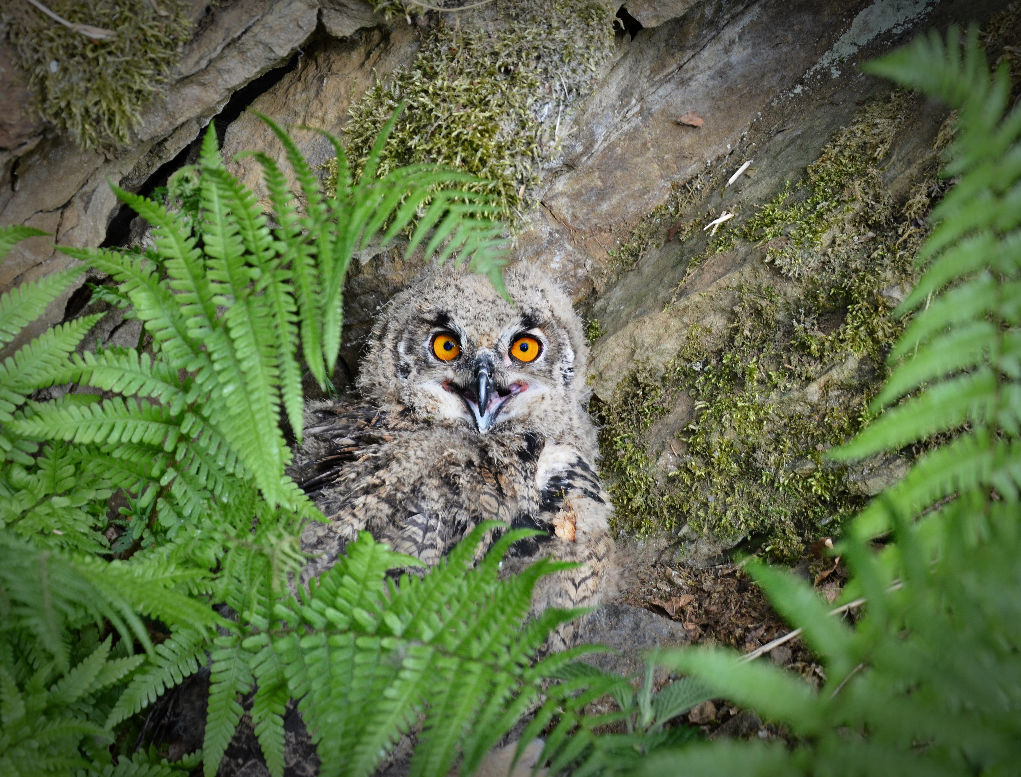 Eurasian Eagle-owl (Bubo bubo) chick at a nesting site located in a steep slope of an abandoned quarry in Minden, North Rhine-Westphalia (Germany)